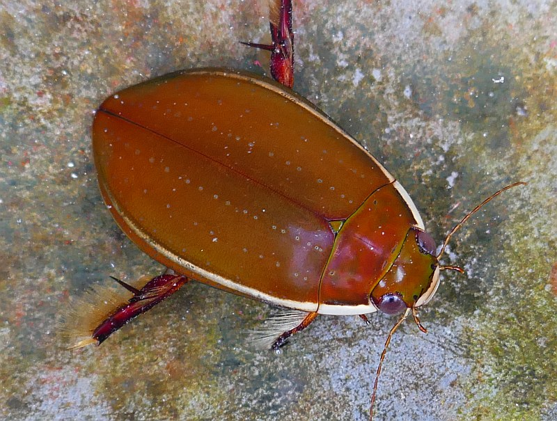 Cybister lateralimarginalis (Dytiscidae) - (imago), Berkenwoude - Ouderkerkse Landscheiding, the Netherlands